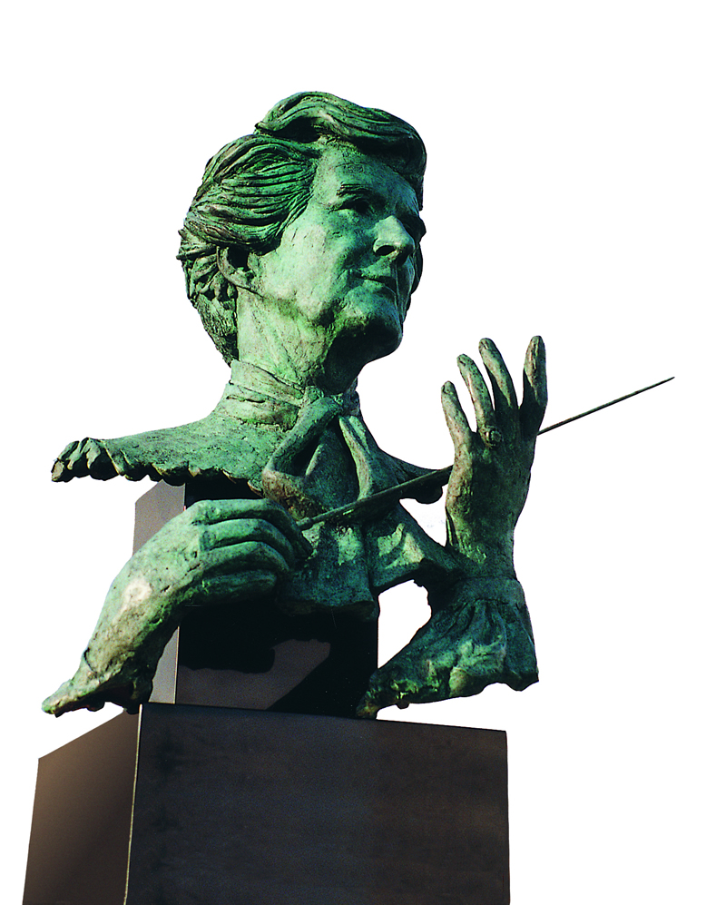 June Gordon Marchioness of Aberdeen and Termair bronze bust by sculptor Laurence Broderick